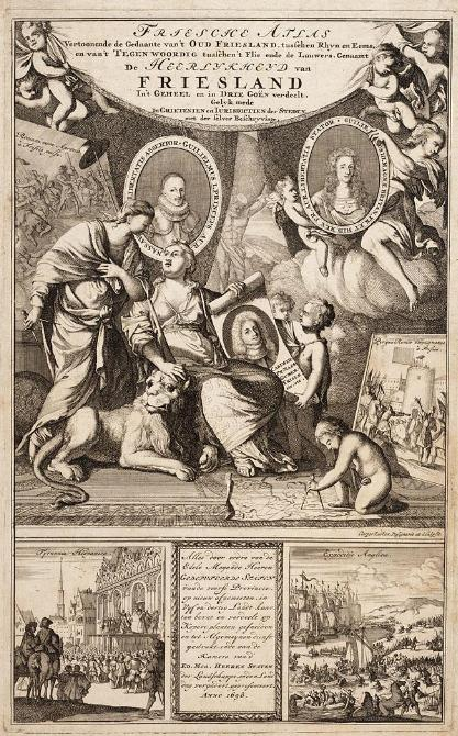 Titel: Friesche Atlas Maker: auteur: Luyken, Casper (1672-1708) Schotanus à Sterringa, Bern. Verv.jaar: 1698 Periode onderwerp: 1698 Bron: signatuur: A51577 [prent (papier)] ([Amsterdams Historisch Museum])